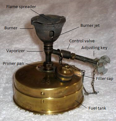 Illustration of the components of a Svea 123 portable stove